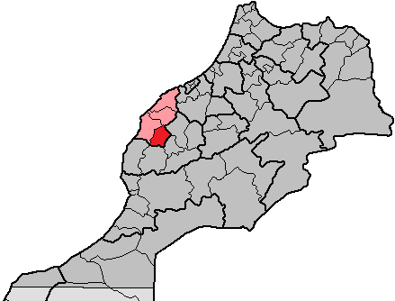 Location of the province Youssoufia within the region Doukkala-Abda, Morocco. In total, Moroco has 16 regions, subdivided into 62 provinces and 13 prefectures.